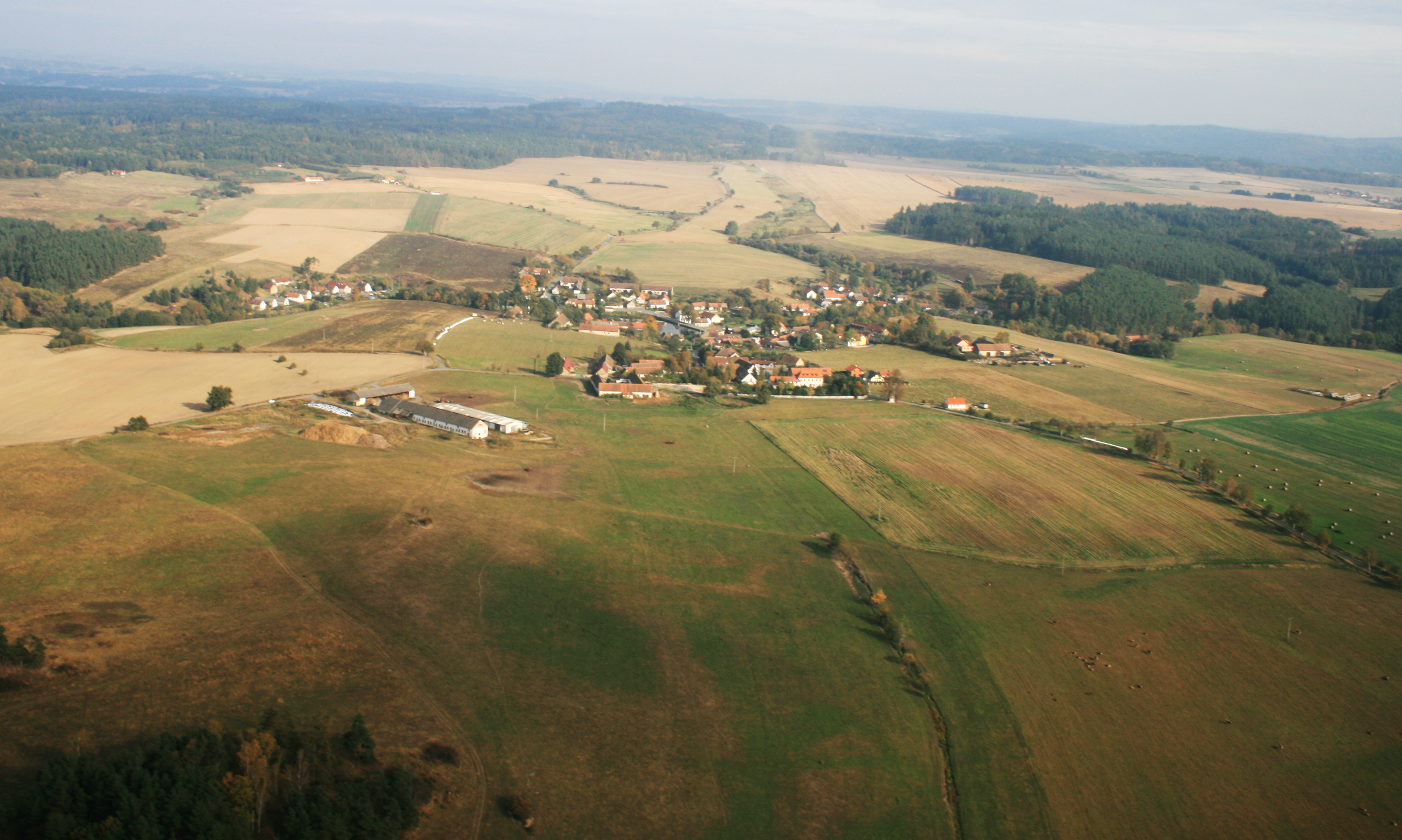 Air photo of village Jickovice in Písek district, south Bohemia, Czech Republic